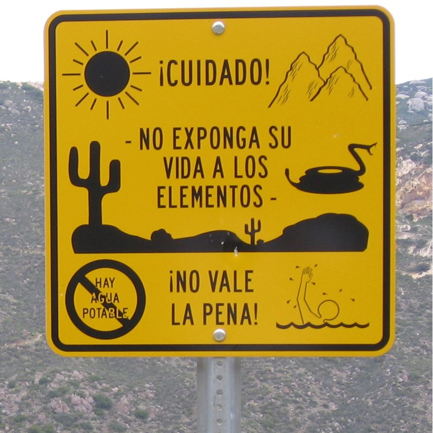 This sign is found near Hauser Canyon, in California, about 15 miles north of the U.S.-Mexico Border. I took this photo myself on April 23, 2005. (In